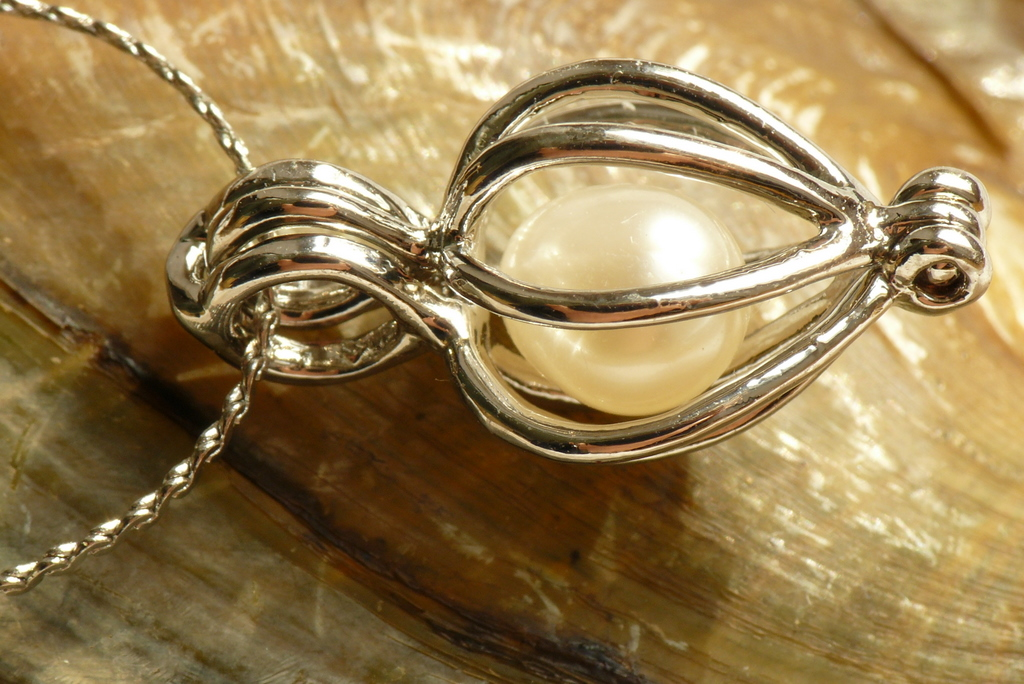 Pearls